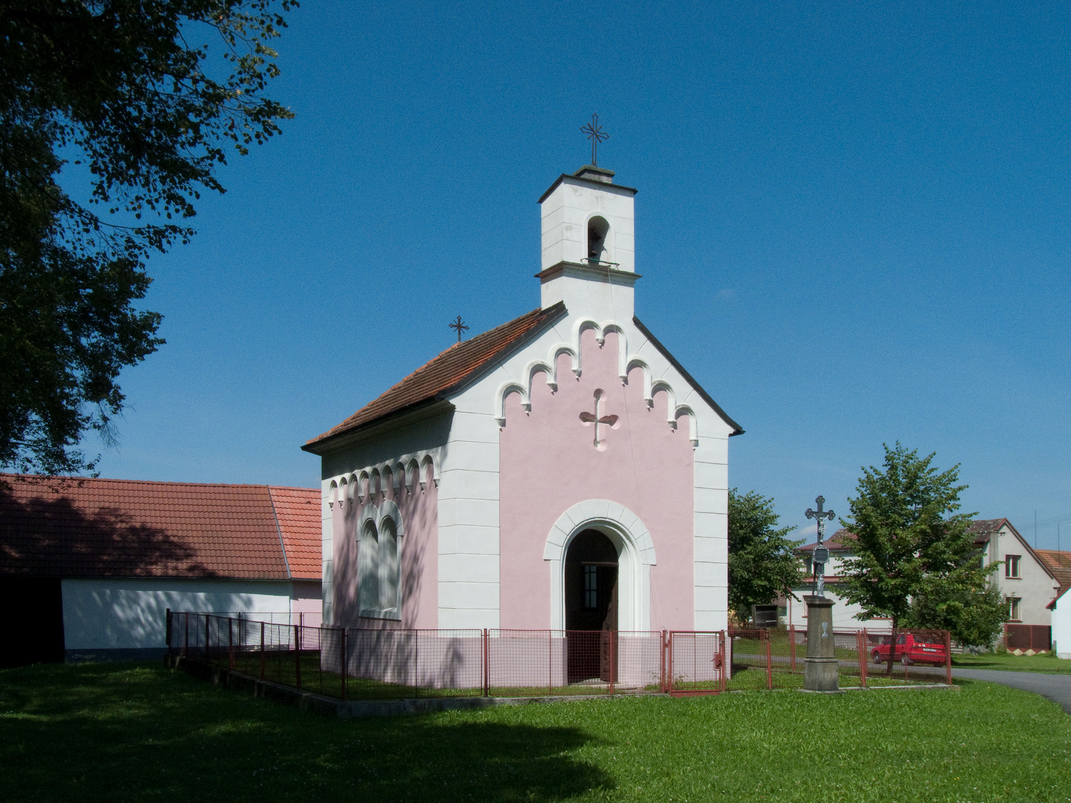 St Joseph Chapel from 1861 in Břehov, České Budějovice district,Czech Republic